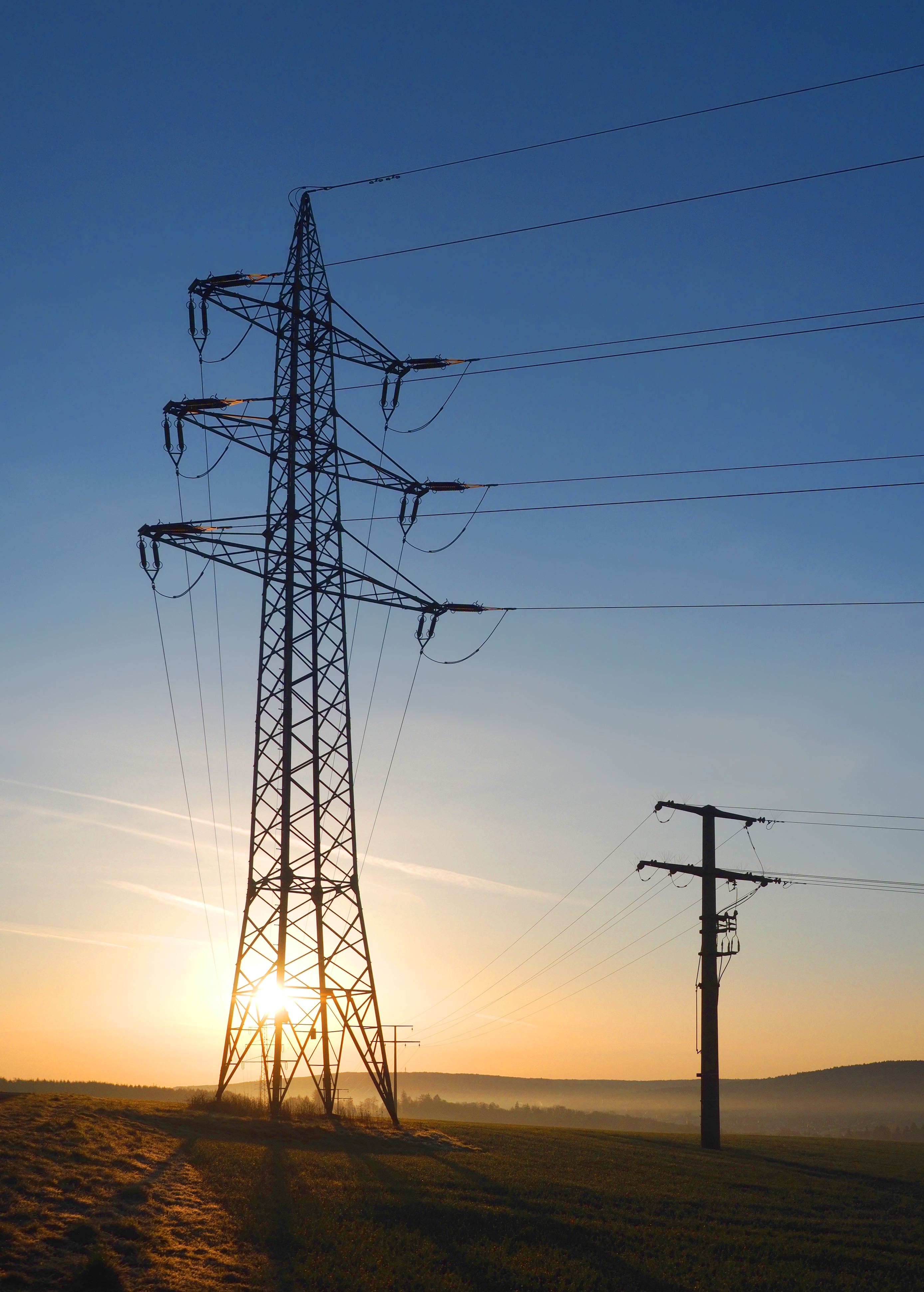 Powerline pylons in Taunusstein, Germany. To the left, 2 circuits of 110 kV 3-phase; to the right, 2 circuits of middle voltage 3-phase (probably 20 kV) with switchable tap. Photo taken 15 minutes after sunrise.